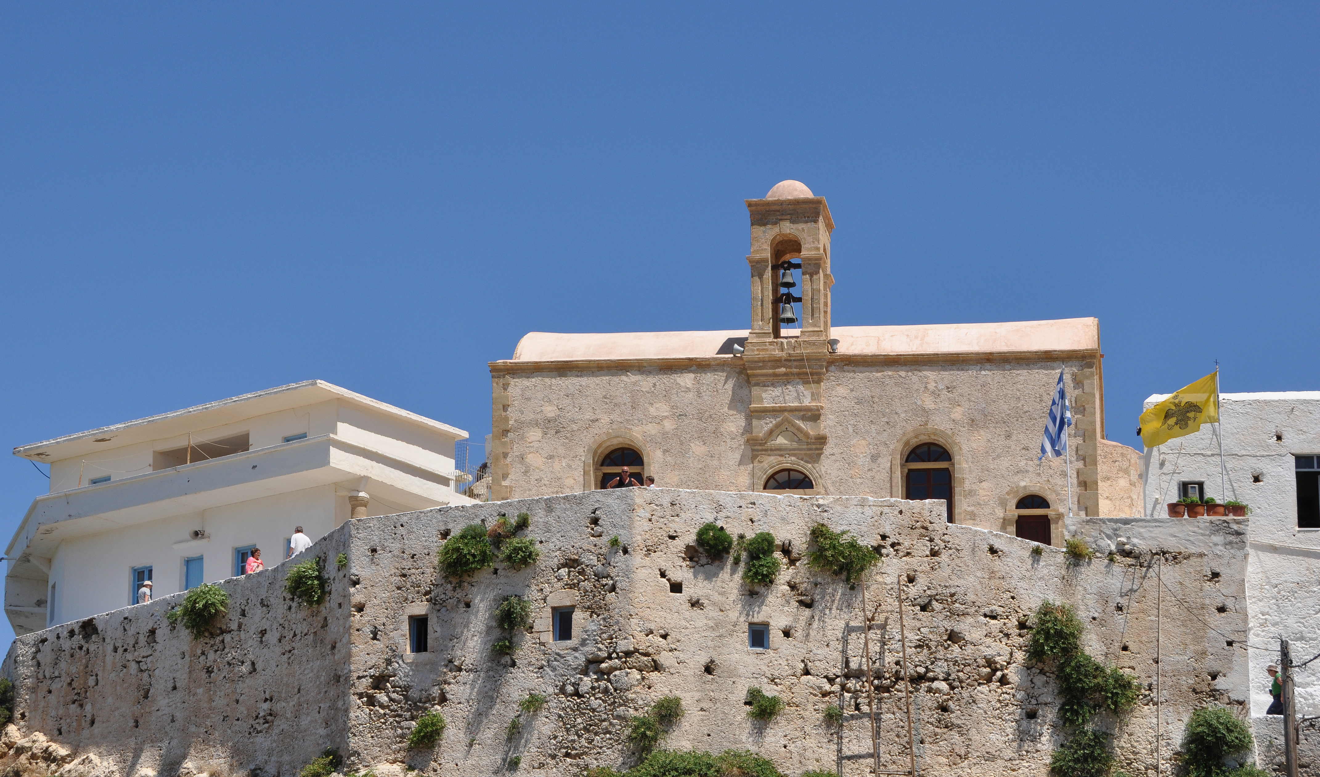 Monastery of Chrysoskalitissa (Crete, Greece)